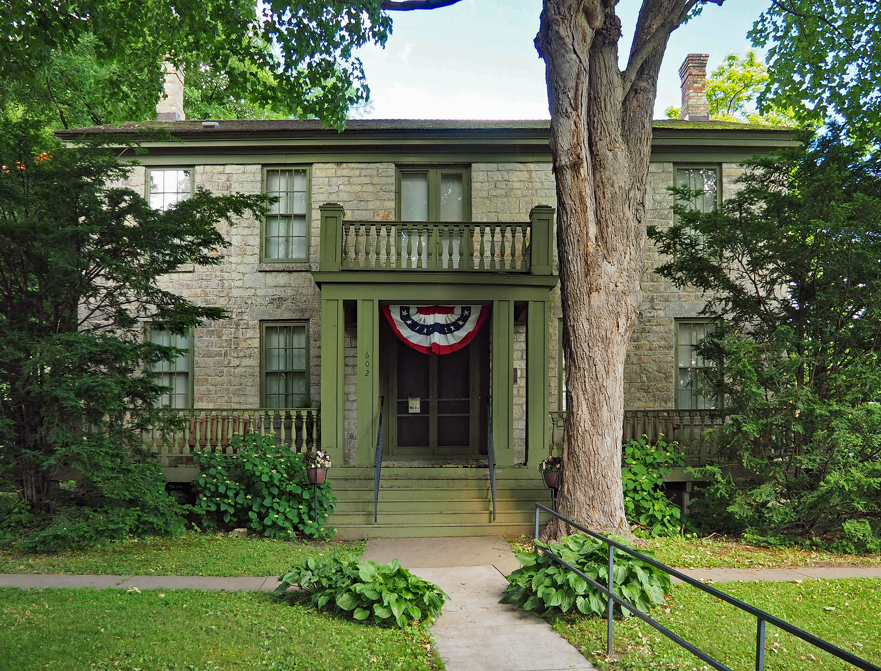 Warden's House Museum, 602 N Main St, Stillwater, Minnesota, USA. Viewed from the east.